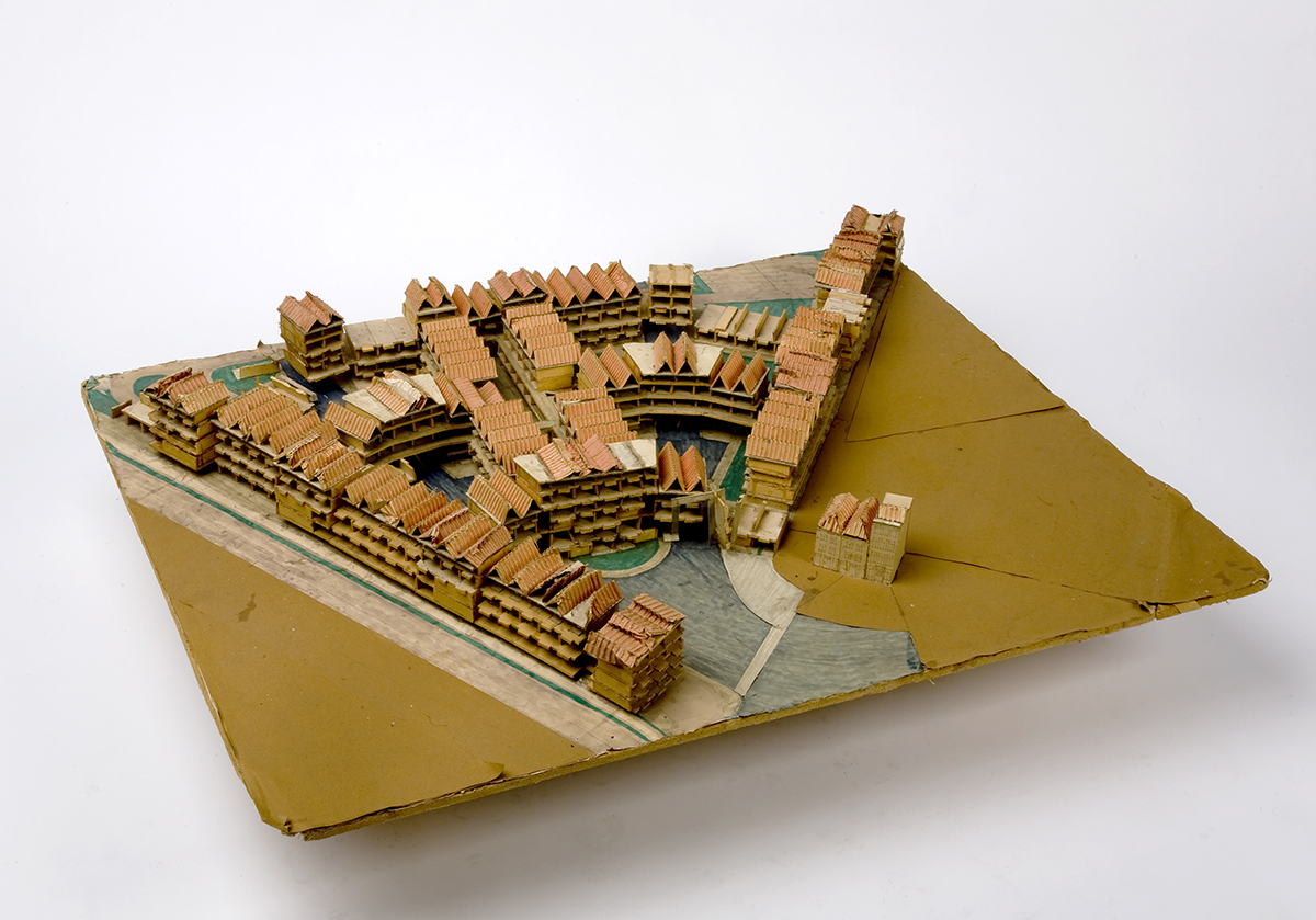 J. Verhoeven. Woonwijk Hofdijk, Rotterdam, 1977-1979. Collectie Het Nieuwe Instituut, MAQV 1037 J. Verhoeven. Residential district Hofdijk, Rotterdam, 1977-1979. The New Institute Collection, MAQV 1037. 200 tekeningen, maquettes en foto's uit de collectie van Het Nieuwe Instituut zijn dit najaar te zien in De Hermitage in St. Petersburg. Samen met een aantal bruiklenen van hedendaagse architectenbureaus vormen ze de tentoonstelling ‘Architecture the Dutch Way 1945-2000’, over de vormgeving van Nederland na de Tweede Wereldoorlog. Op Flickr Commons een uitgebreide selectie uit de stukken die in september op transport gaan naar Rusland. 200 drawings, models and photographs from the collection of The New Institute will be on show this autumn at the Hermitage in St. Petersburg. Together with several items on loan from contemporary architectural firms, they will form the exhibition Architecture the Dutch Way 1945-2000 which is about the design of the Netherlands after the Second World War. On Flickr Commons we present a selection of pieces that will be leaving for Russia in early September.